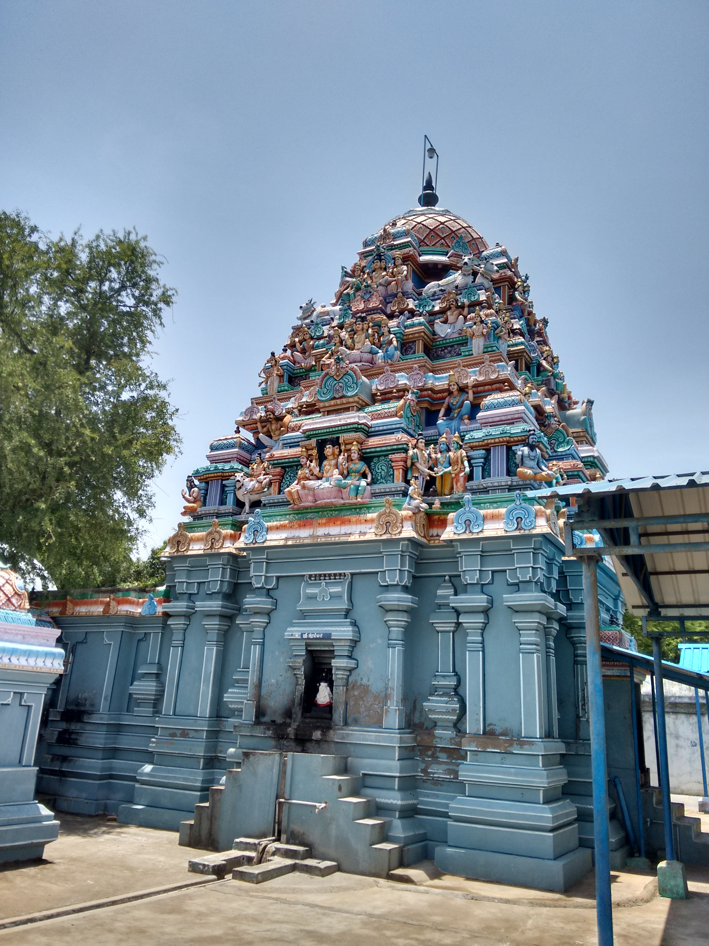 Kattirinattham kalahasteeswarar vimana கத்திரிநத்தம் காளகஸ்தீஸ்வரர் கோயில் விமானம்